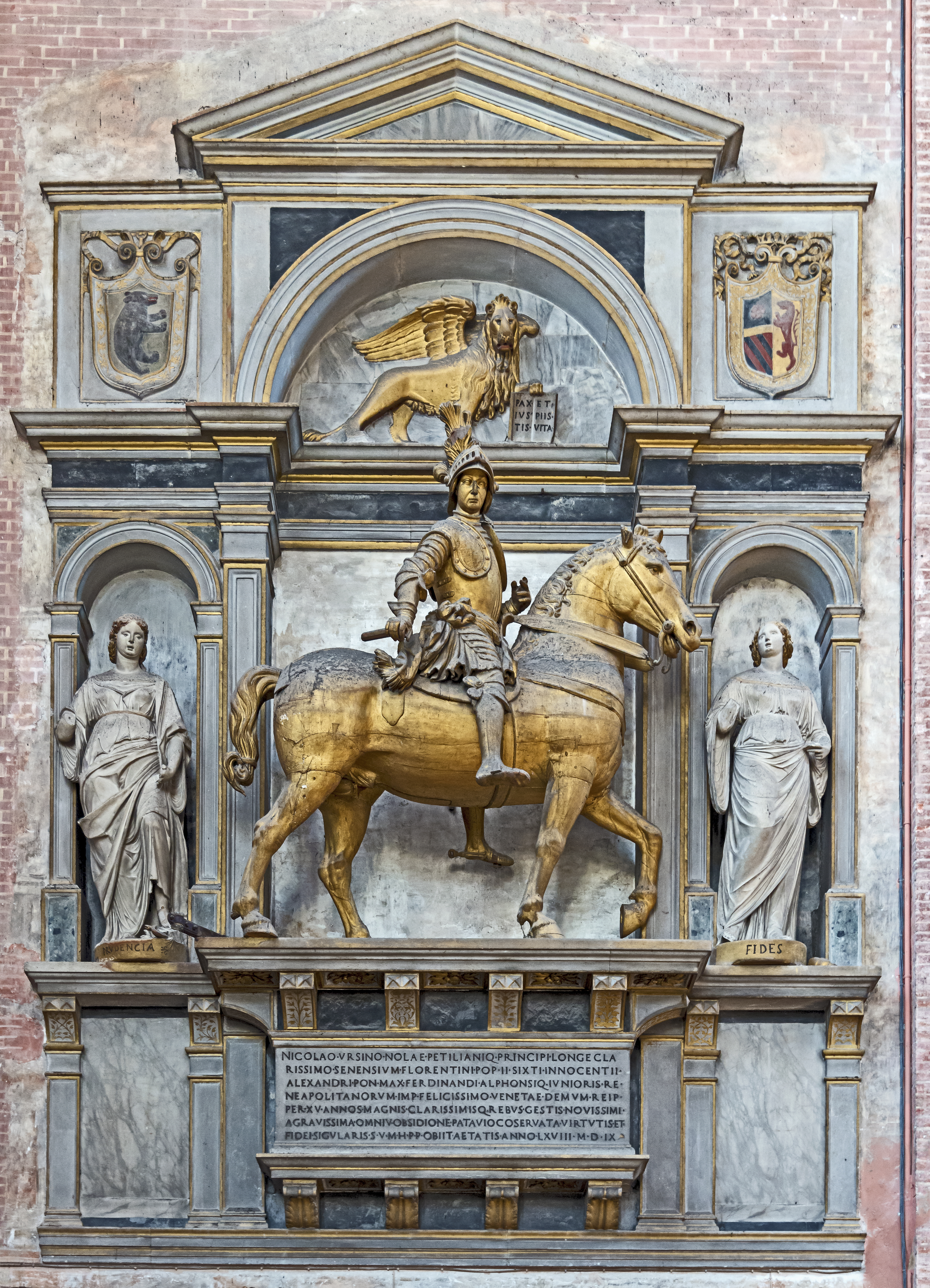 Left transept of Santi Giovanni e Paolo in Venice - The equestrian statue of Niccolò Orsini di Pitigliano attributed to Lorenzo Bregno. From both sides the statues of Prudence and Faith by Tullio Lombardo.